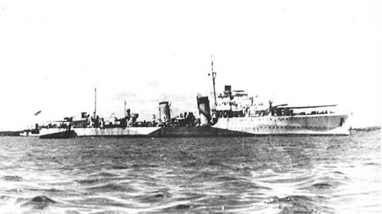 HMS Havelock